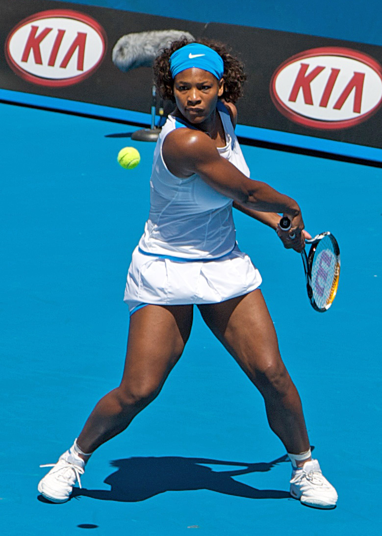 Serena Williams at 2009 Australian Open, Melbourne, Australia.